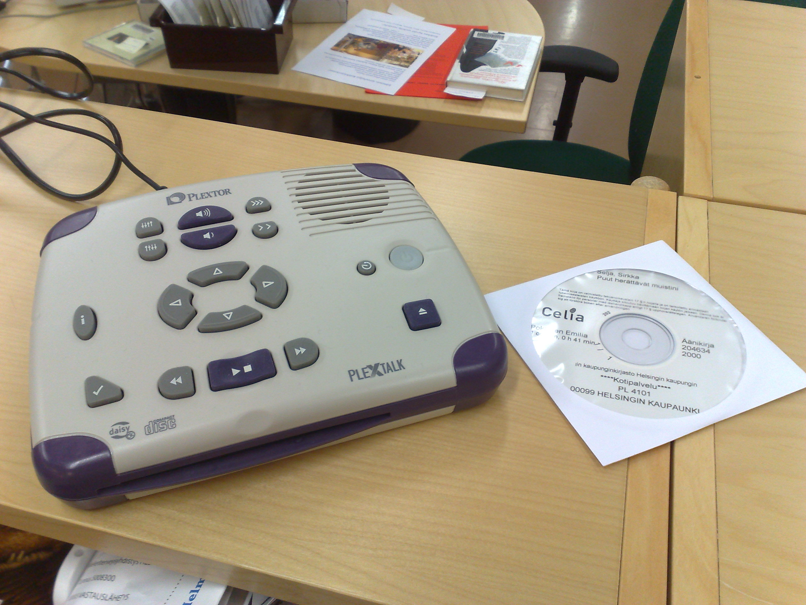 A Daisy -player and audiobook. Daisy is the audiobook format the Celia, the library for the visually impaired uses. I saw this today when i visited kotipalveluosasto at the main library in Pasila.